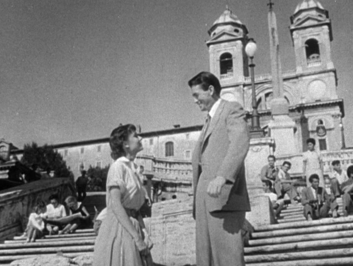 Cropped screenshot of Audrey Hepburn and Gregory Peck from the trailer for the film Roman Holiday.